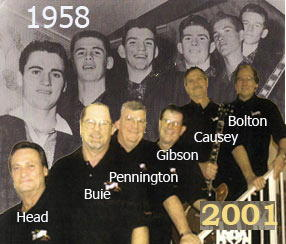 Roy Head and The Traits, 1958 and 2001.